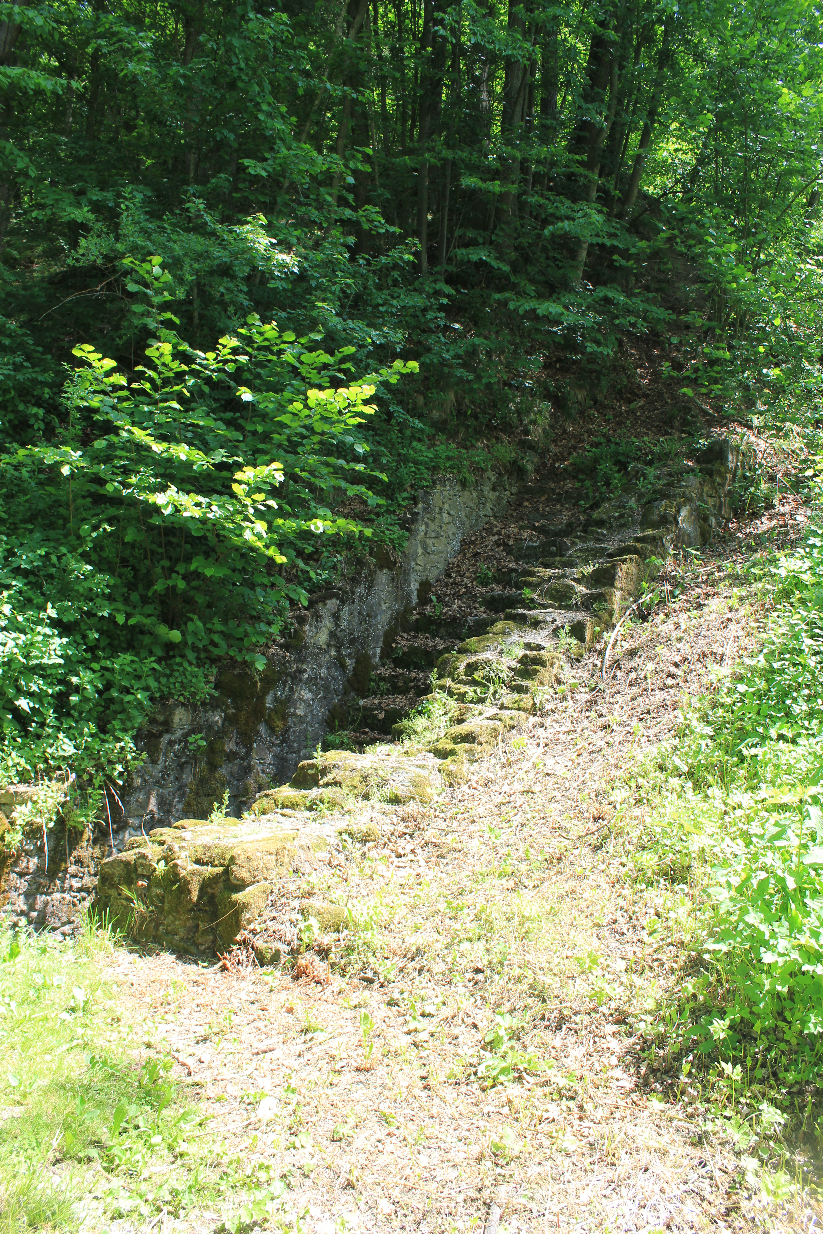 Mars-Latobius-Sanctuary near Sankt Paul im Lavanttal